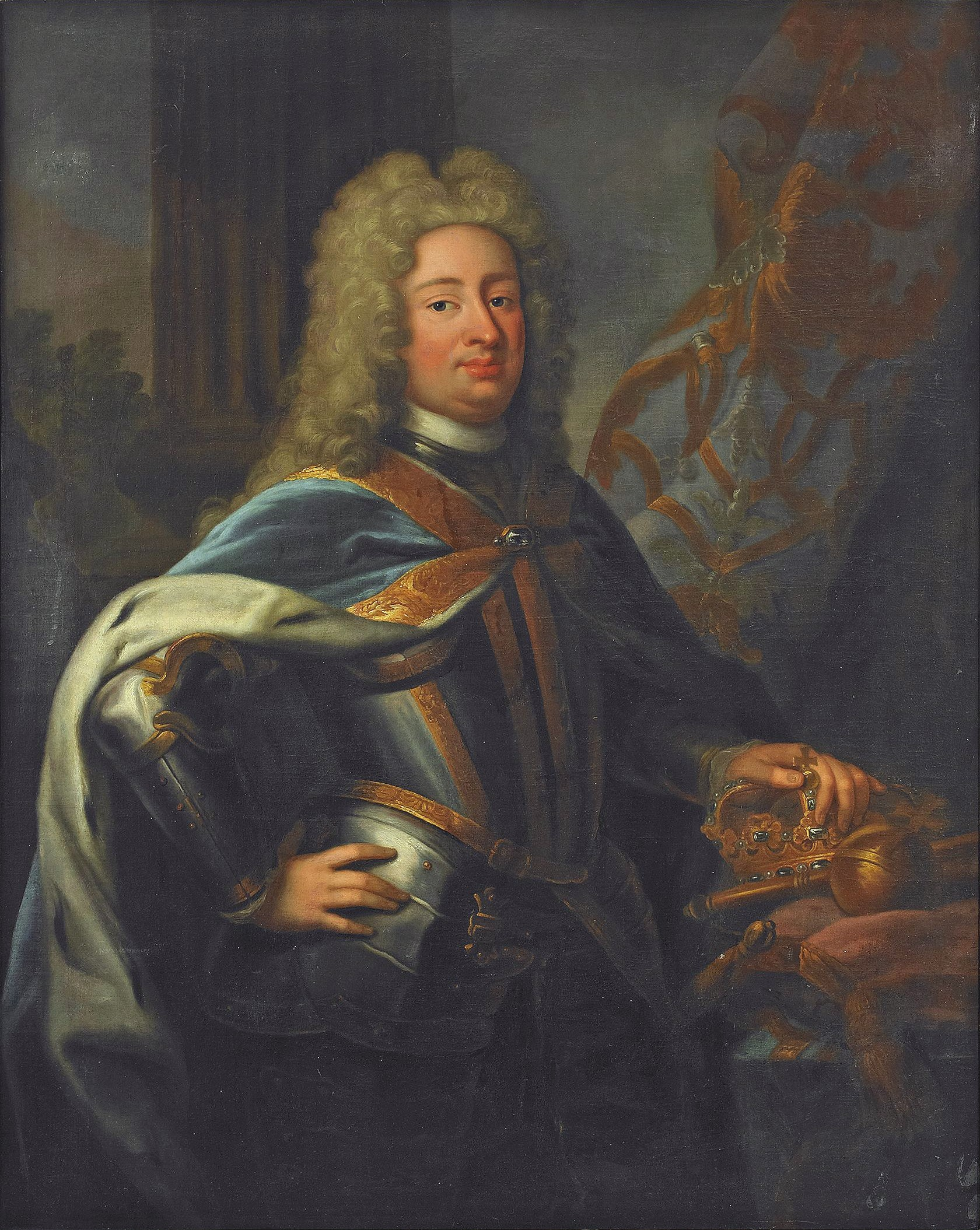 Portrait of Frederick I of Sweden (1676-1751)